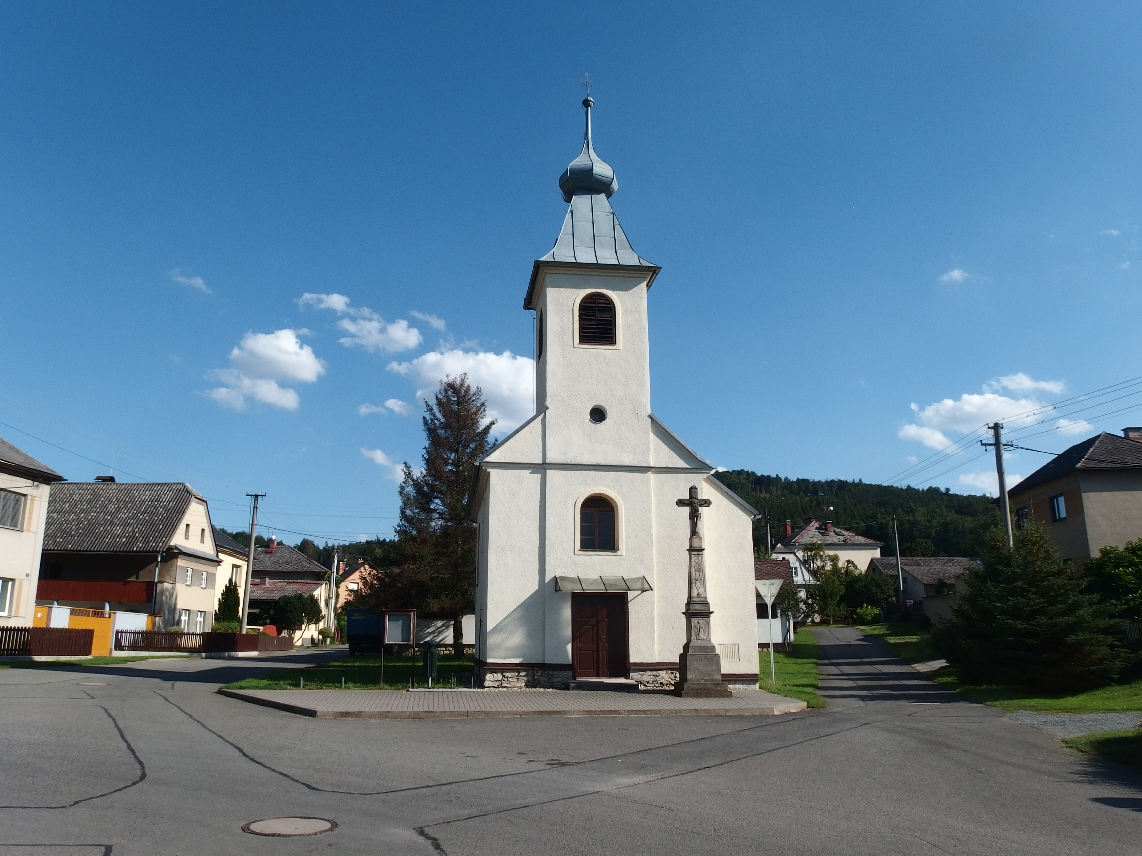 Kolšov, Šumperk District, Czechia.